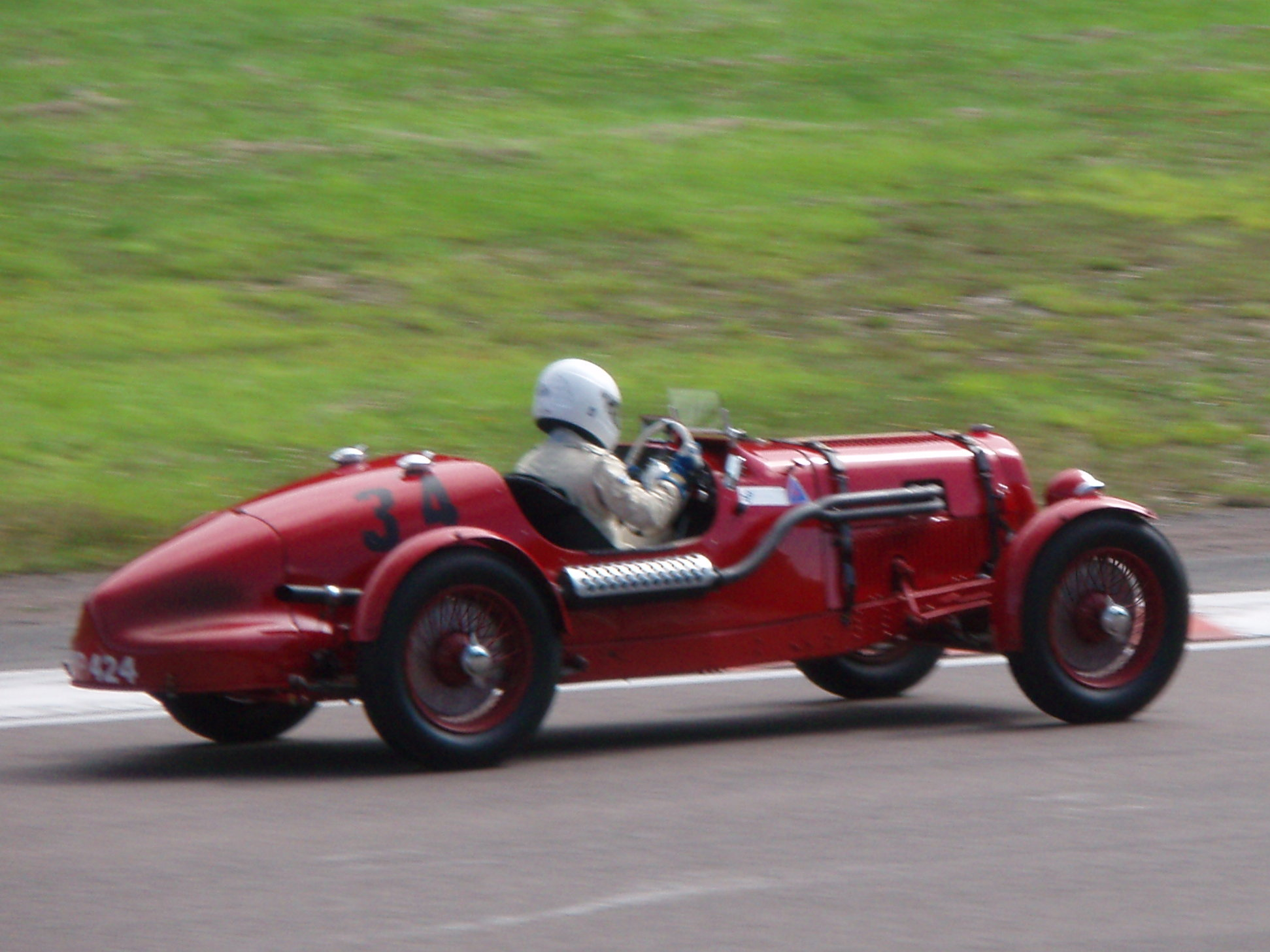 A 1937 Aston Martin Speed 2 litres race car in the 2007 "Grand Prix de l'Âge d'Or" in Dijon-Prenois.